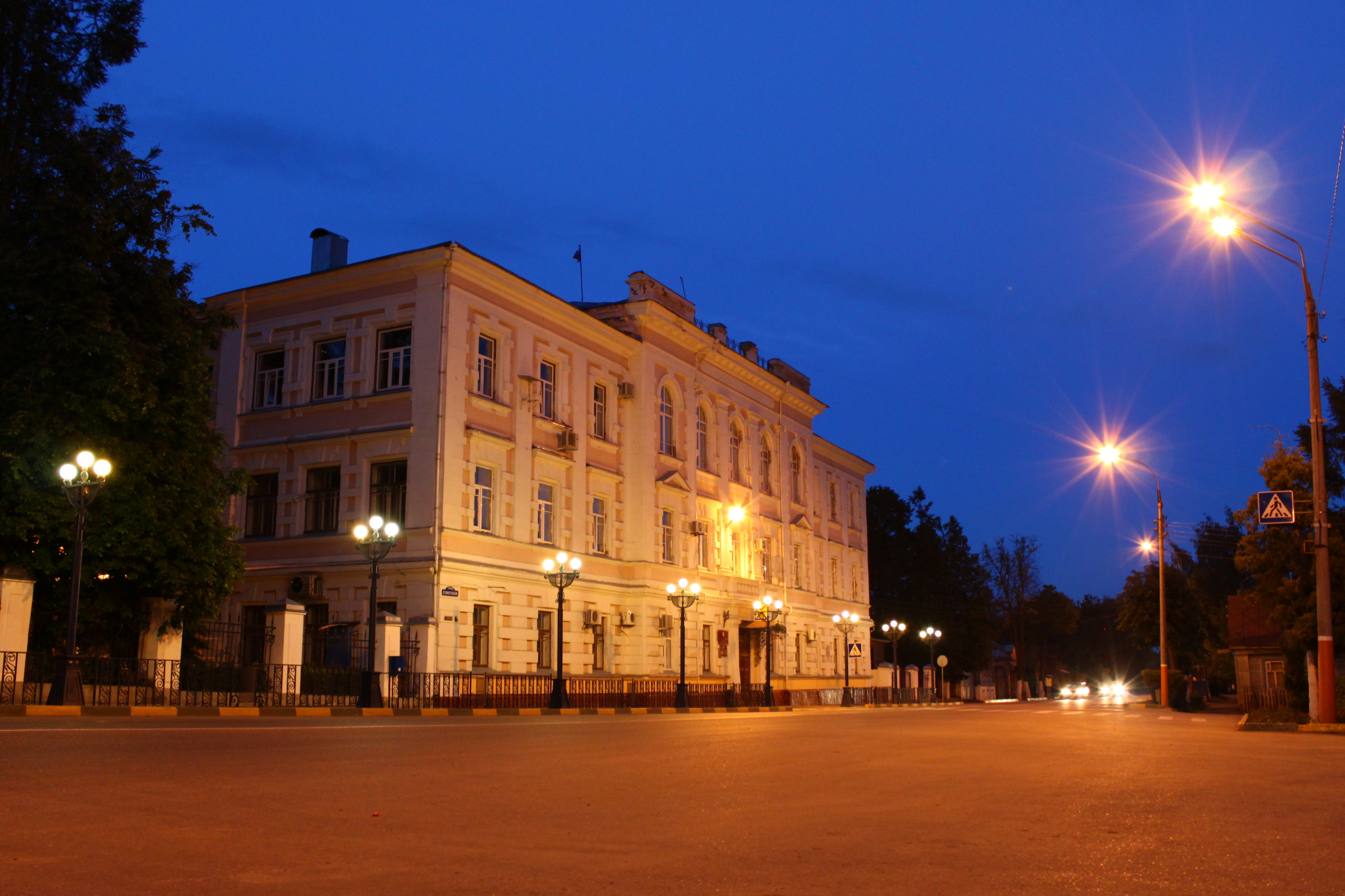 Arzamas town council